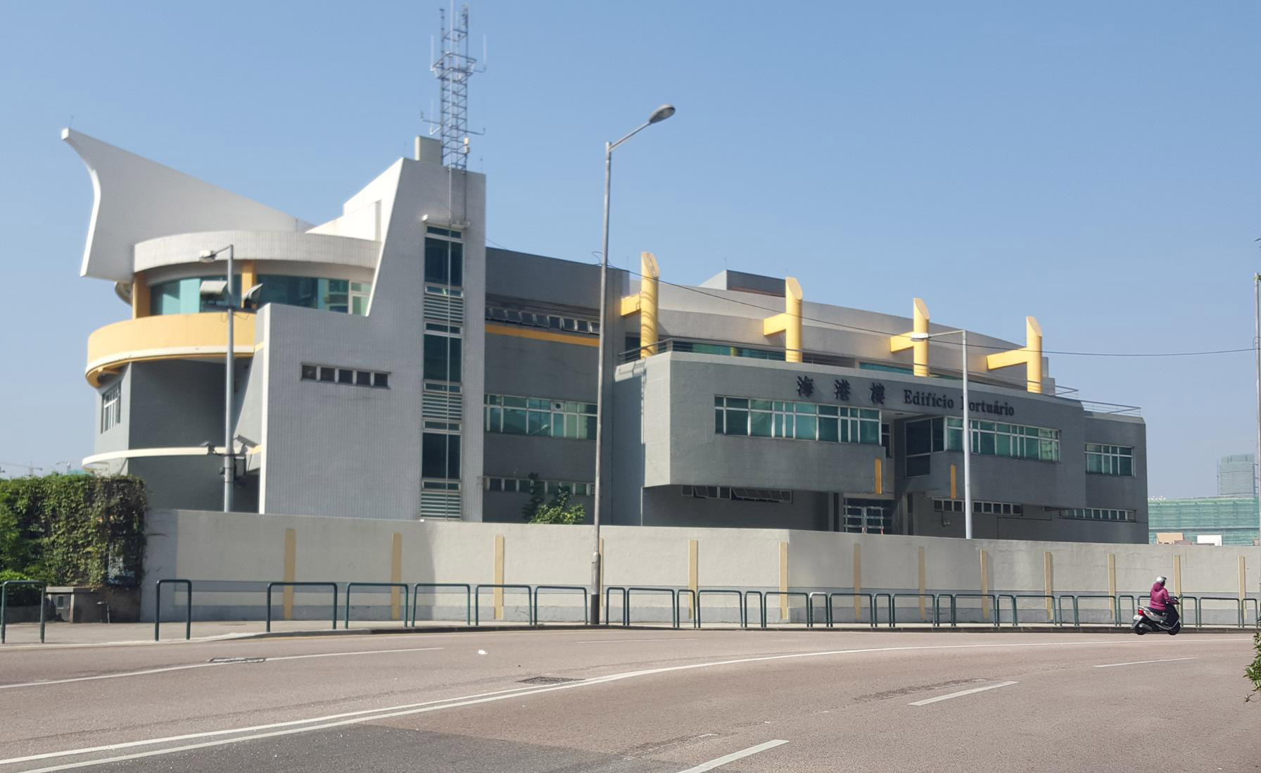 Macau Marine Building